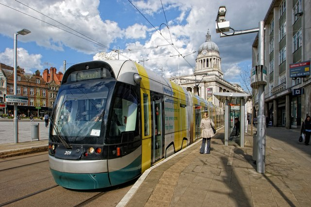 South Parade, Nottingham